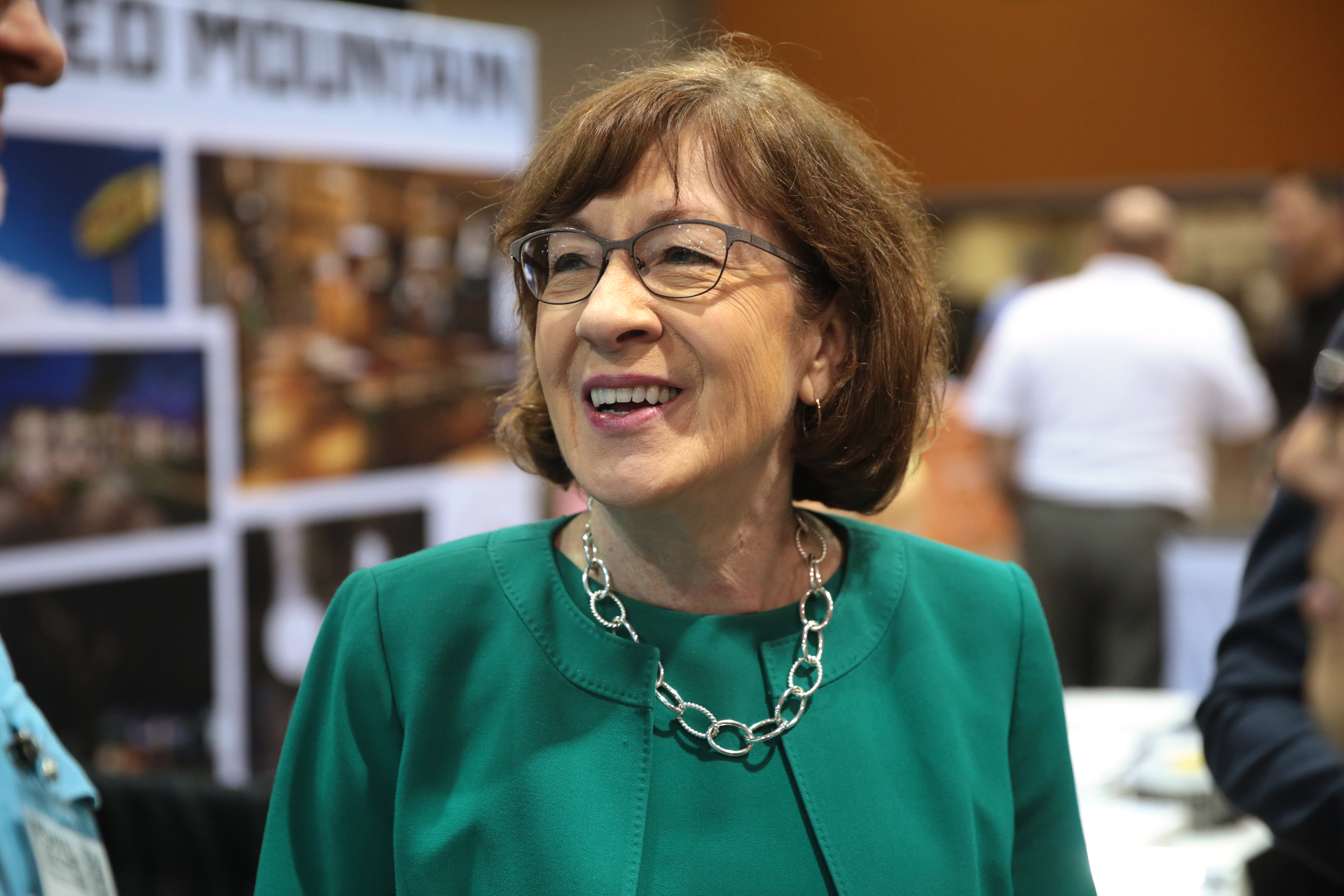 U.S. Senator Susan Collins speaking with attendees at the 2018 Small Business Expo at the Phoenix Convention Center in Phoenix, Arizona.